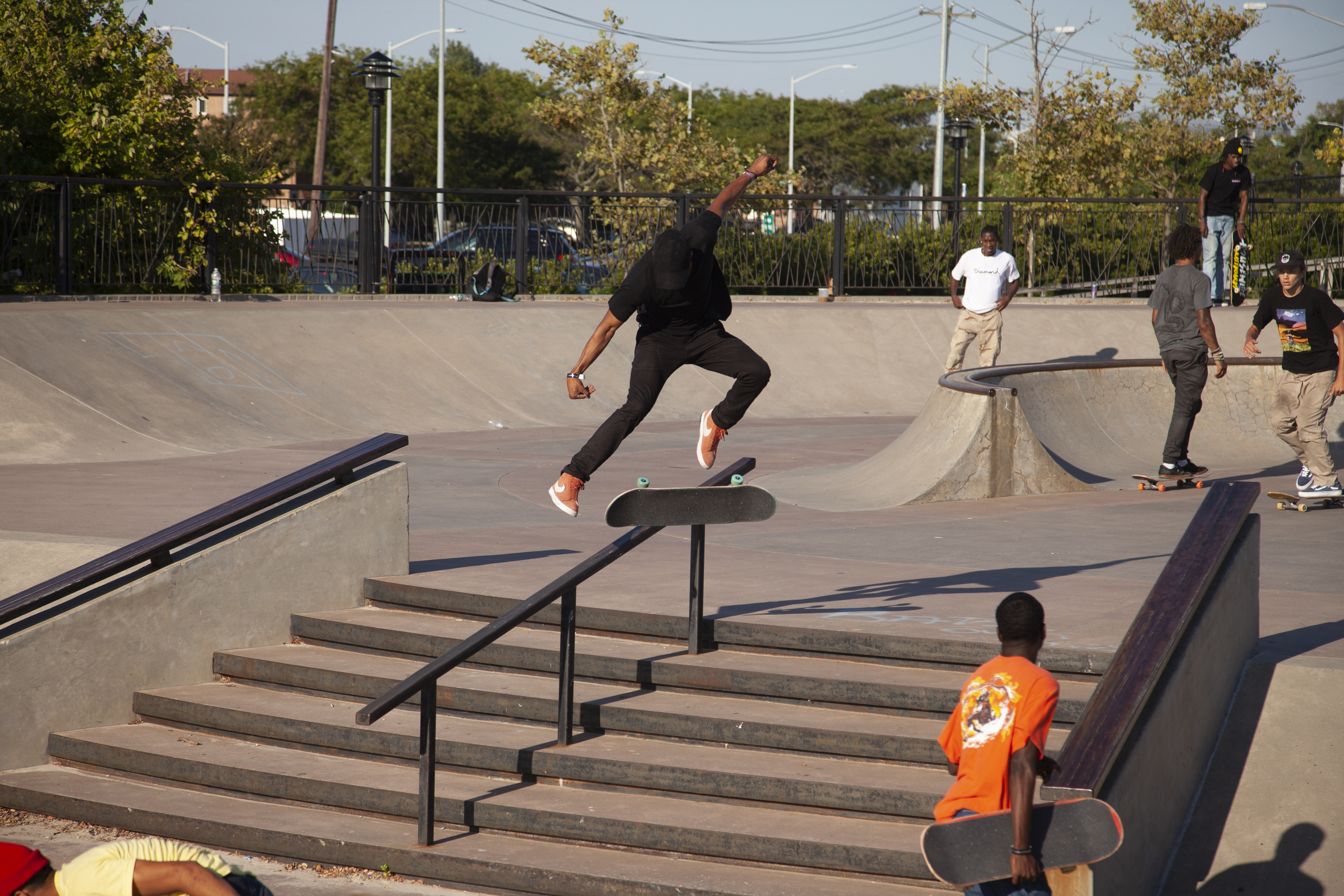 Andre Beverly kick flips into the rail at the Battle of the Beach 2 - Far Rockaway Skatepark - September - 2019